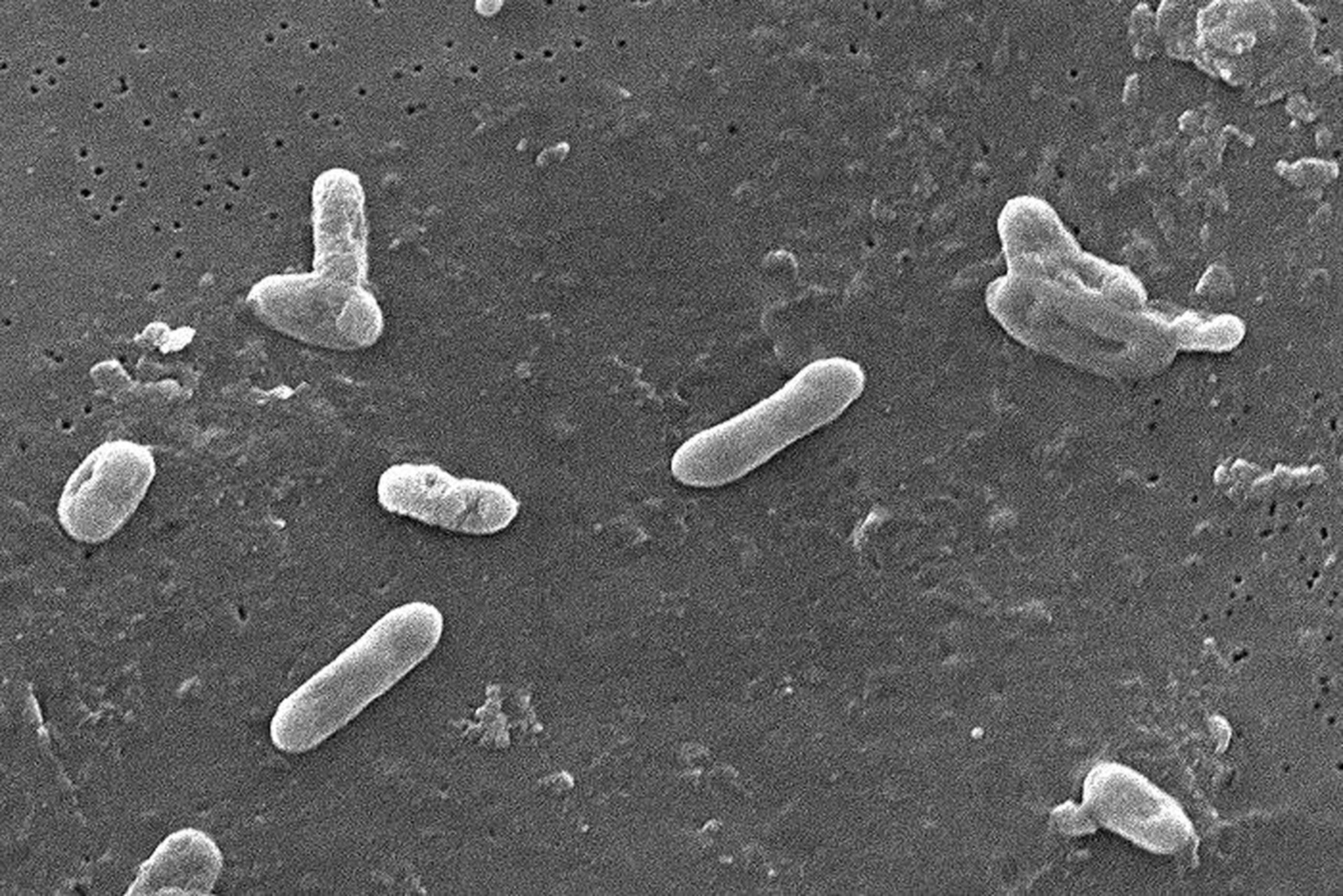 This scanning electron micrograph (SEM) depicted a number of Gram-negative Bordetella bronchiseptica coccobacilli bacteria. This organism is commonly found to be the cause of respiratory tract infections in dogs, as well as human beings whose immune system had been compromised including those who are infected by the HIV virus. Genetically very similar and closely related to B. pertussis, which is evidenced in the fact that it too possesses the gene to express pertussis toxin, this Bordetella member does not produce the toxin like its fellow genus member. This bacterium can cause a wide range of sympomts, including mild respiratory illnesses such as rhinitis, to those indicative of full-blown pneumonia, with accompanying “pertussis-like” manifestations, especially in immunocompromised individuals, as in the case of those with an HIV infection.